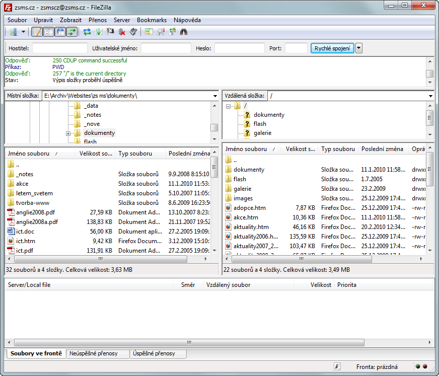 FileZilla v 3.3 CZ in Windows 7